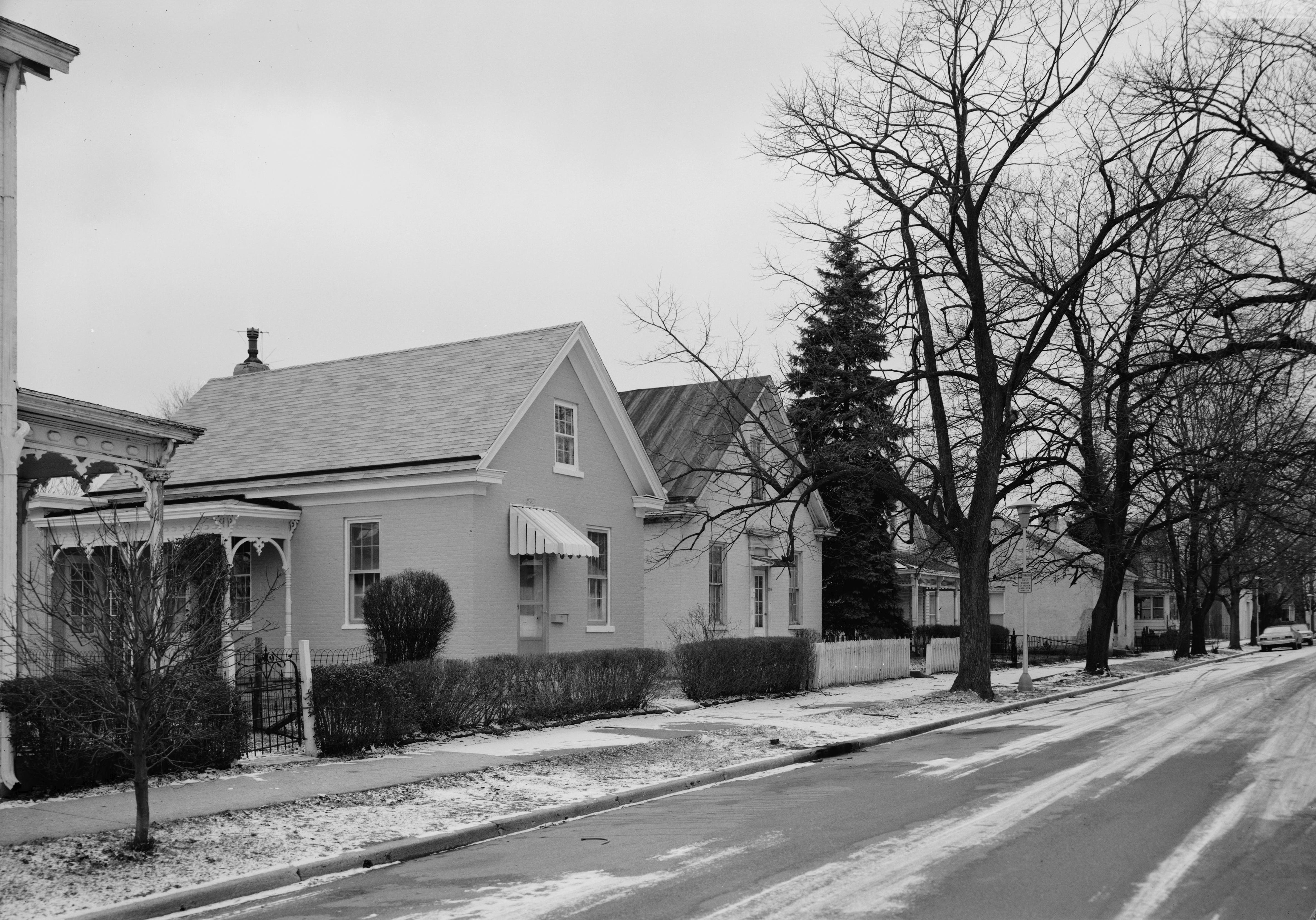 Houses at 236 and 240 S. Third Street in Richmond, Indiana, United States. They are among over 200 buildings within the Old Richmond Historic District, a historic district that is listed on the National Register of Historic Places.